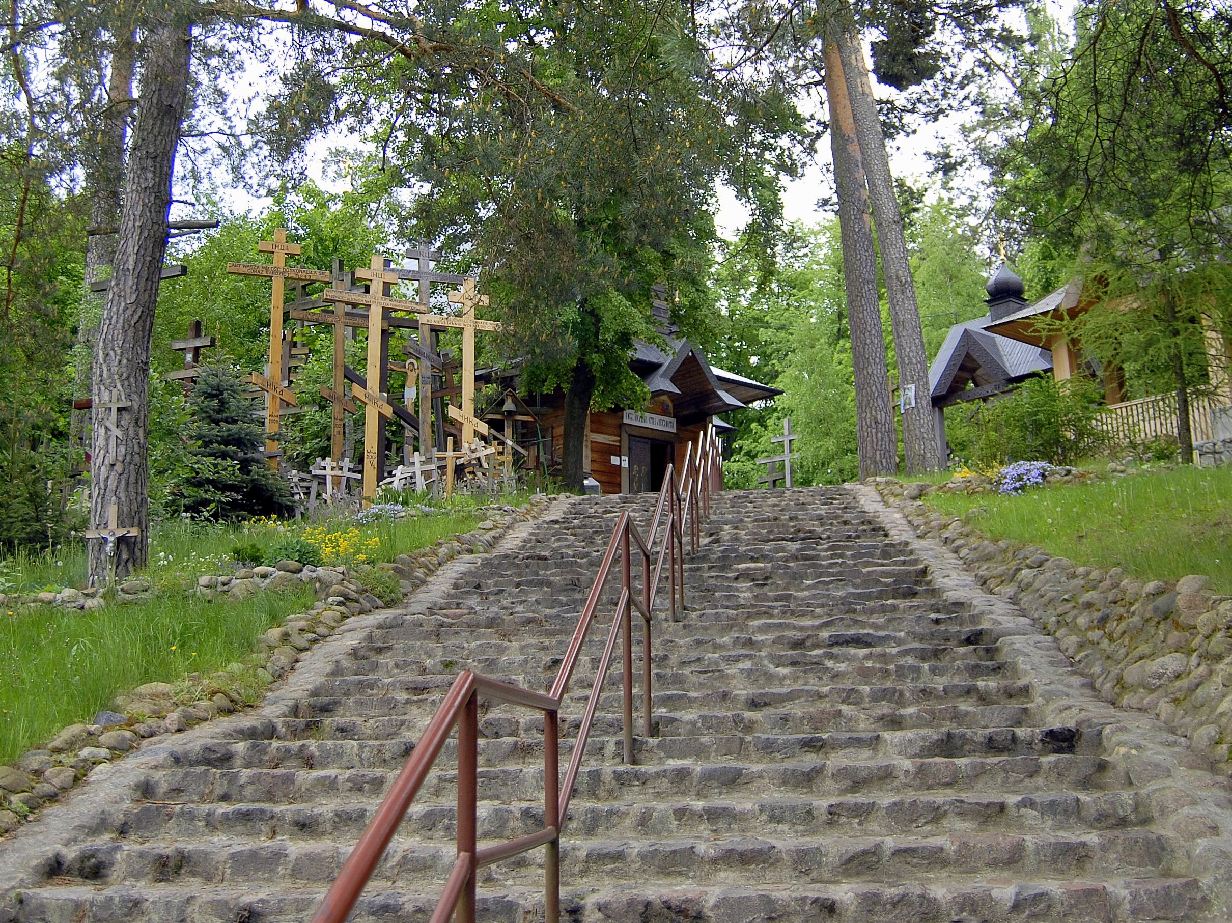 The Holy Mountain of Grabarka